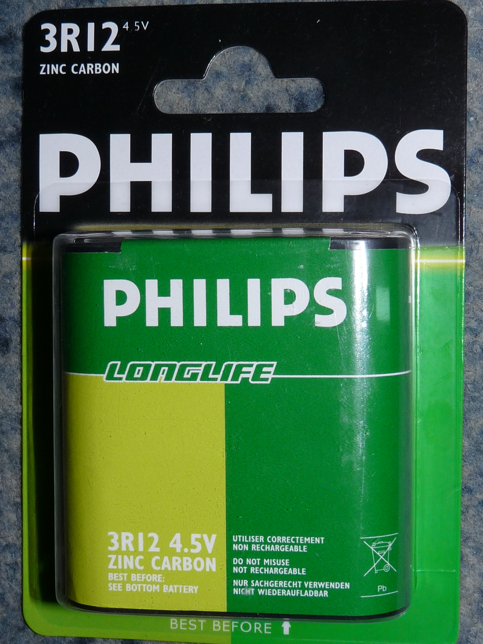 3R12 battery